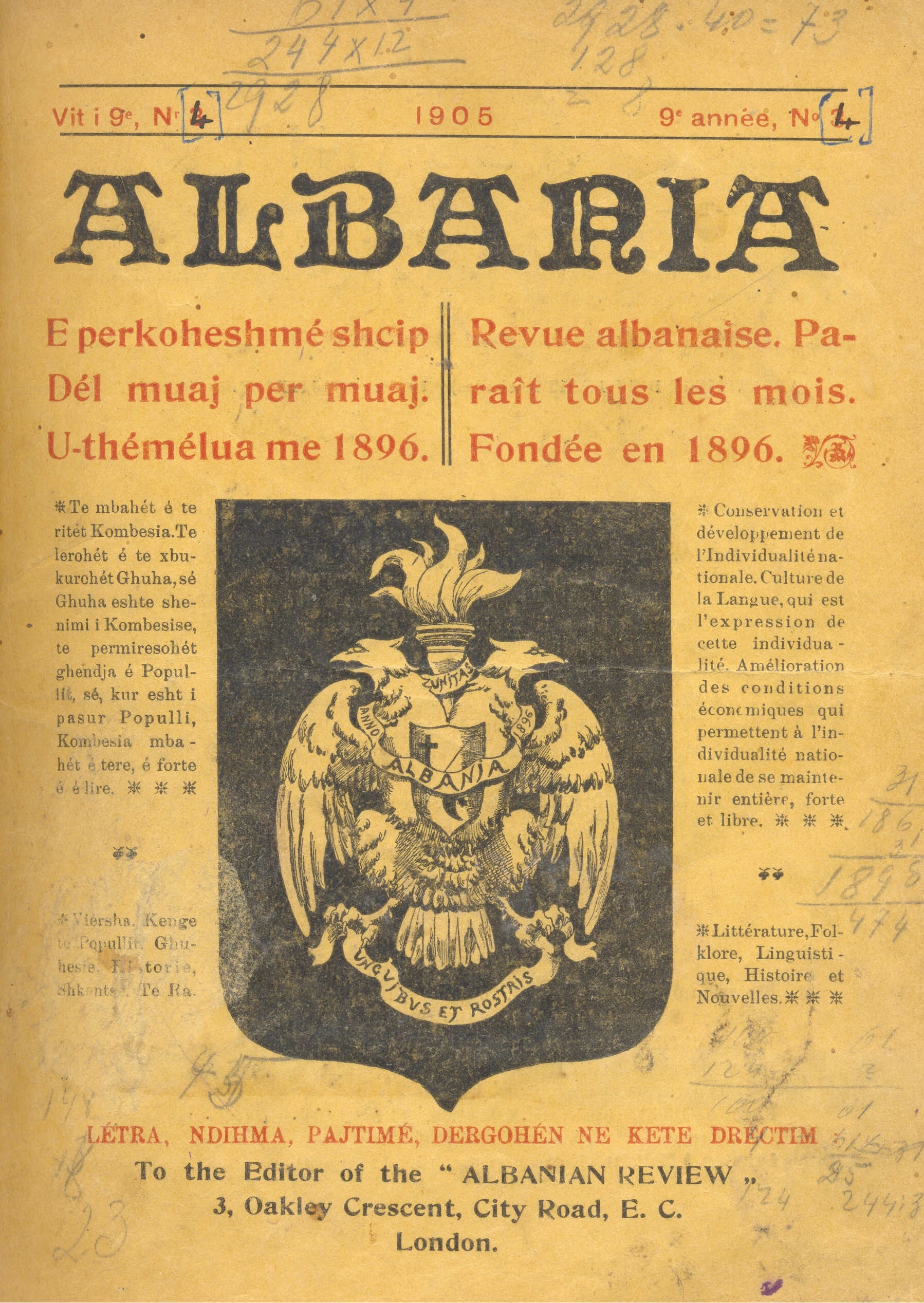 Cover of Albania magazine